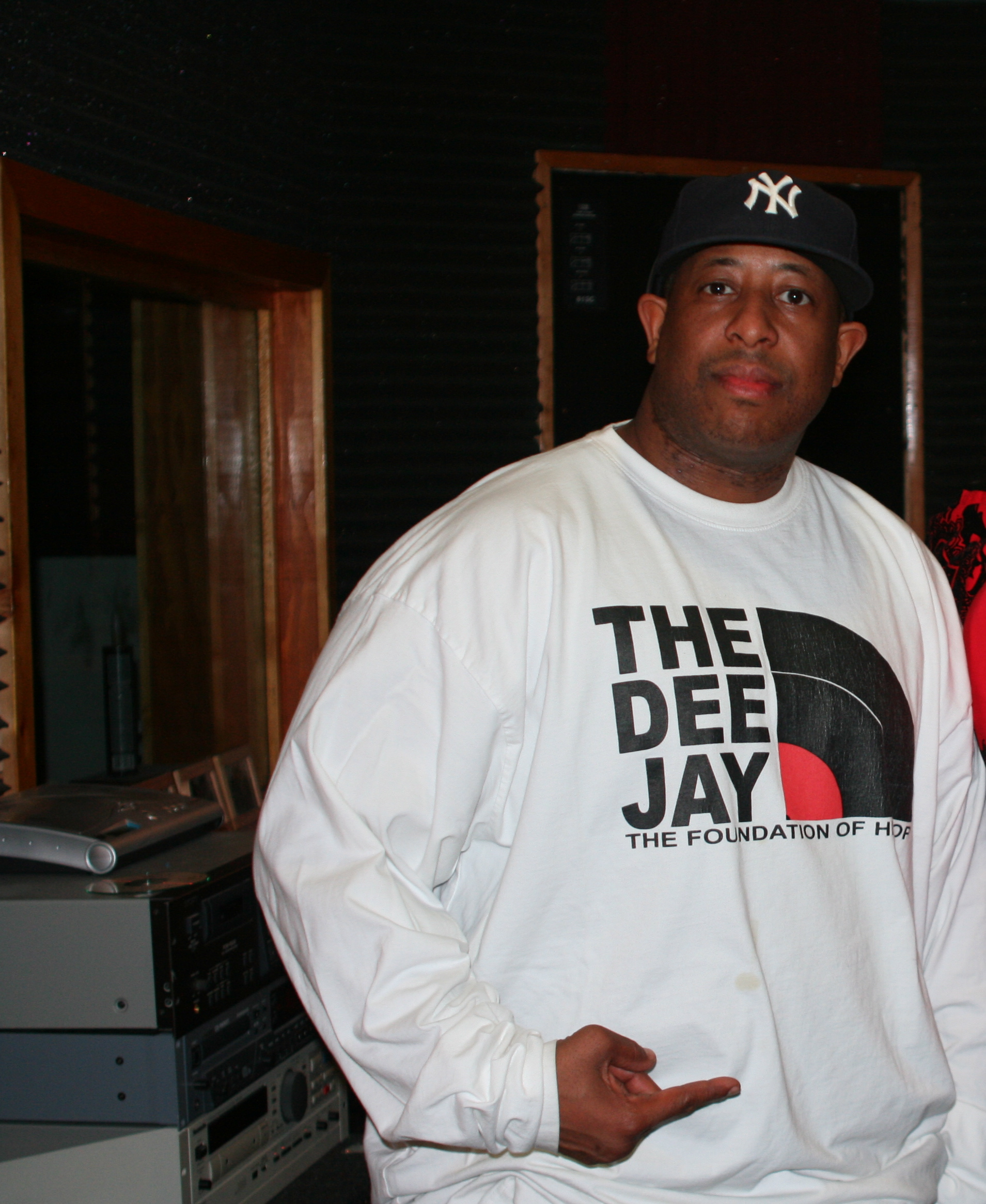 in the studio with DJ Premier